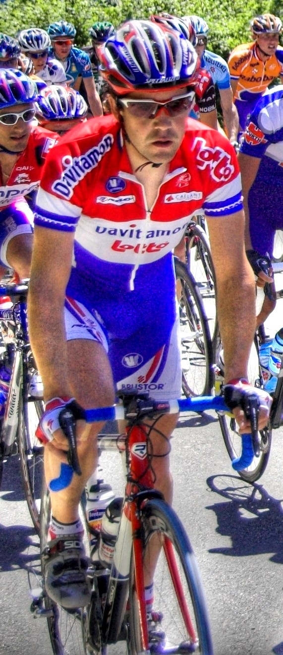 Leon van Bon on the 2nd stage of the bicycle race "tour de suisse 2006" - near Mutschellen. 'tour de suisse 1' On Black